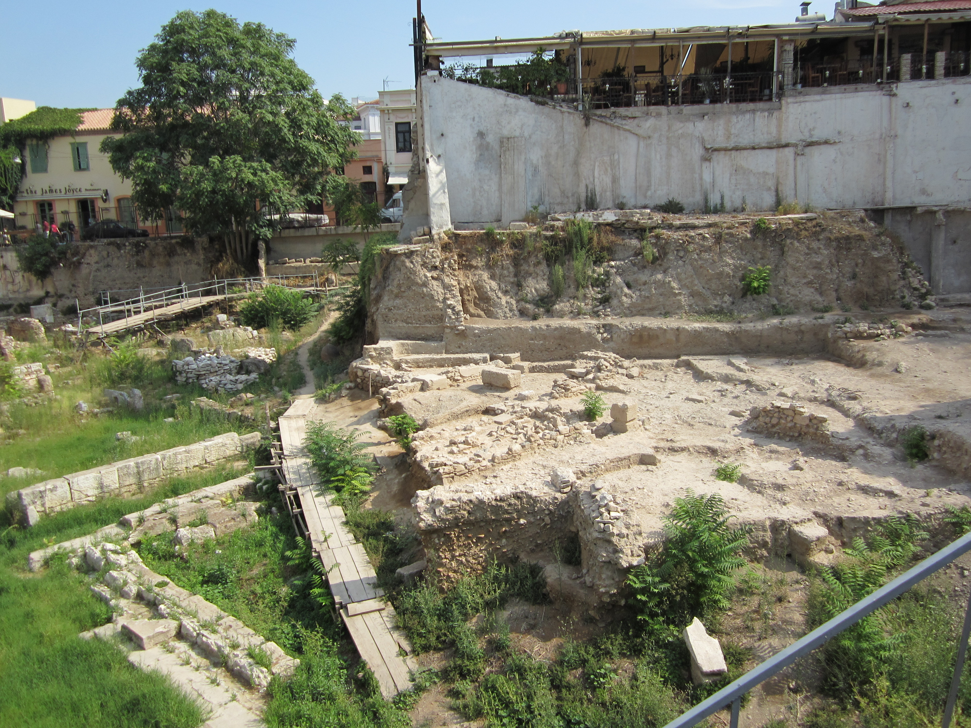 Archaeological site of Stoa Poikile, Ancient Agora of Athens.